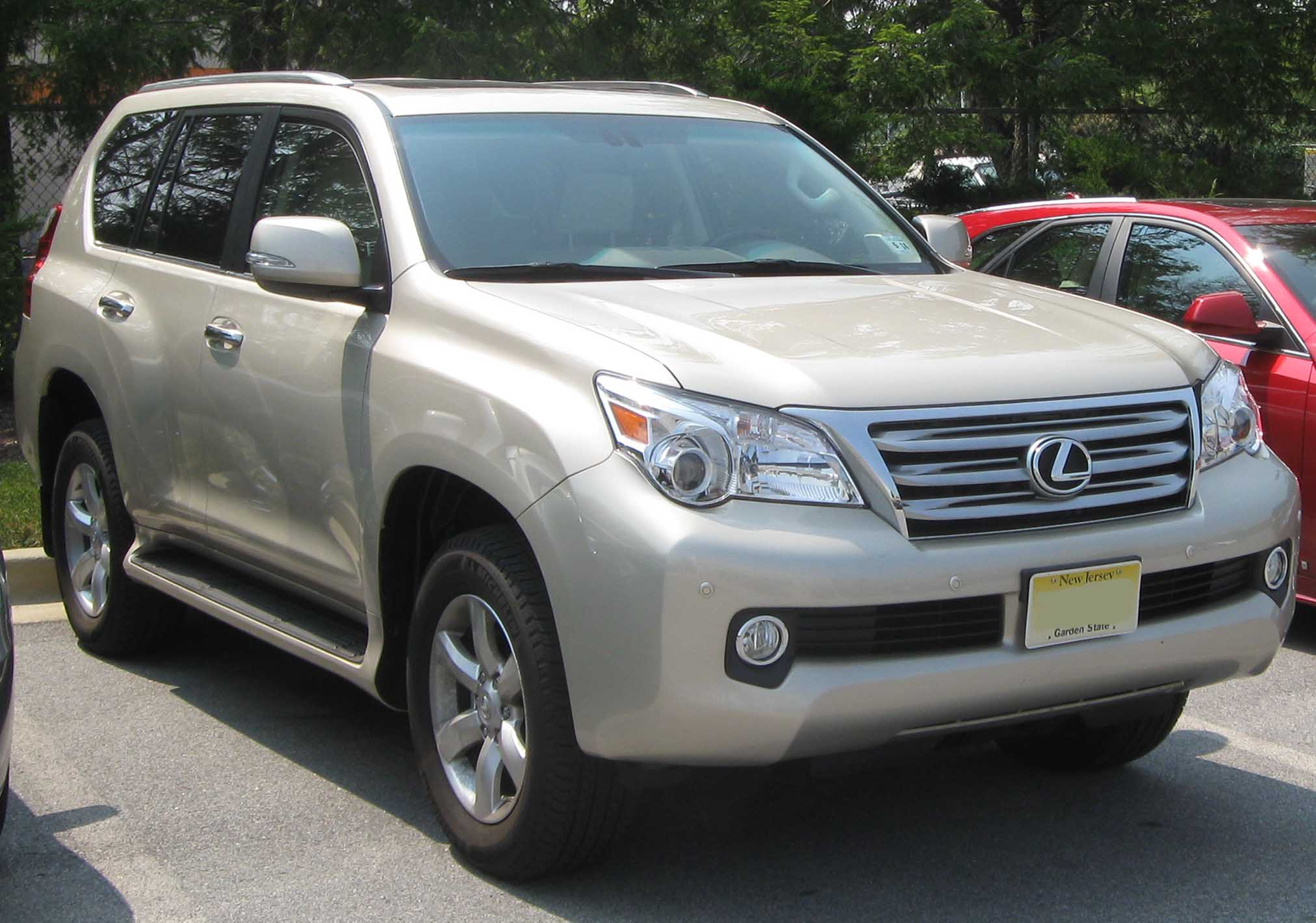 2010 Lexus GX460 photographed in Upper Marlboro, Maryland, USA.